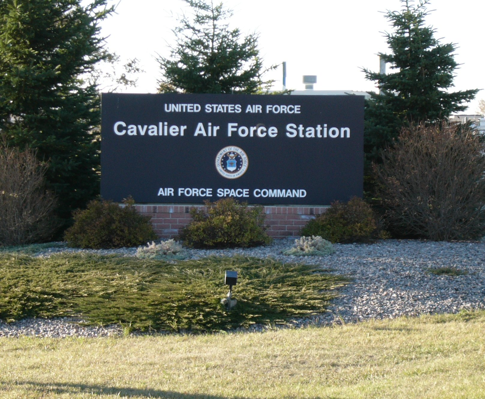 Base Gate sign at Cavalier AFS, North Dakota